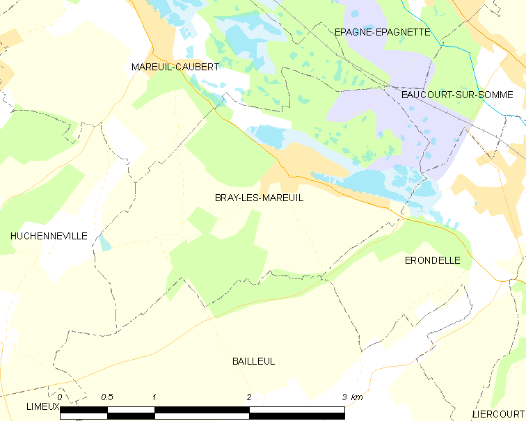 Map of French municipality Bray-lès-Mareuil